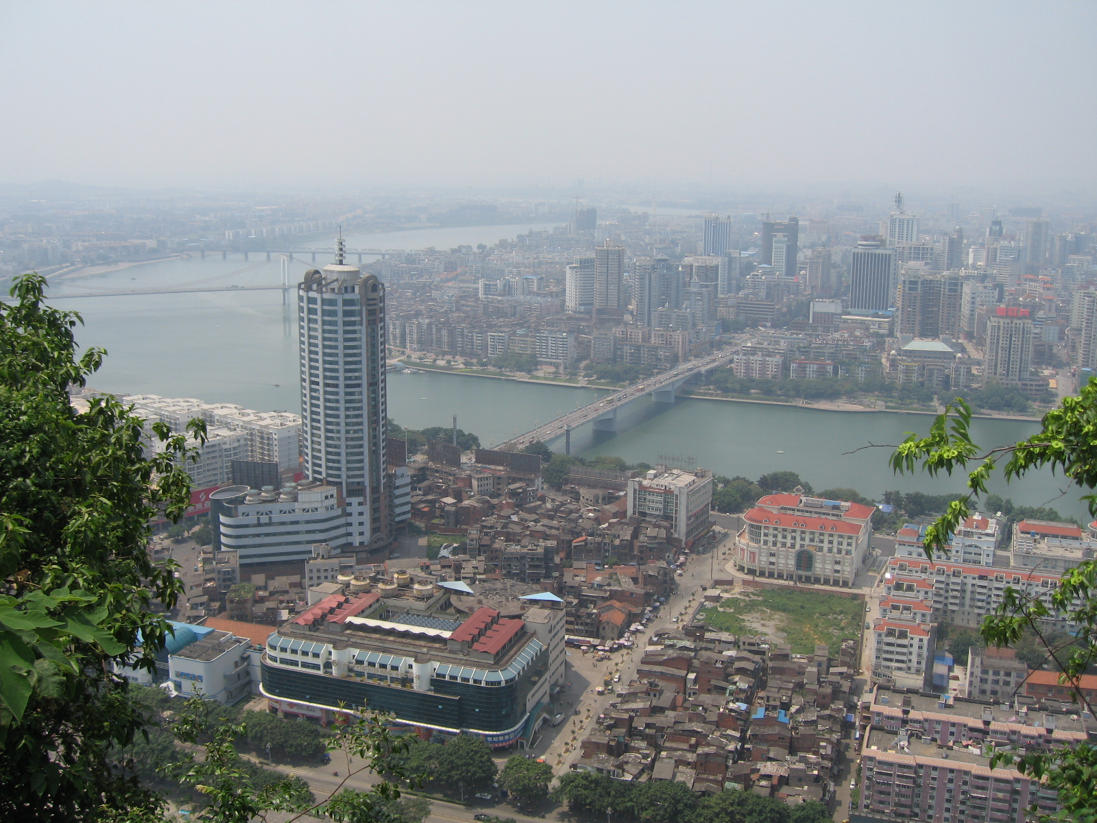 The Liu River in central Liuzhou.